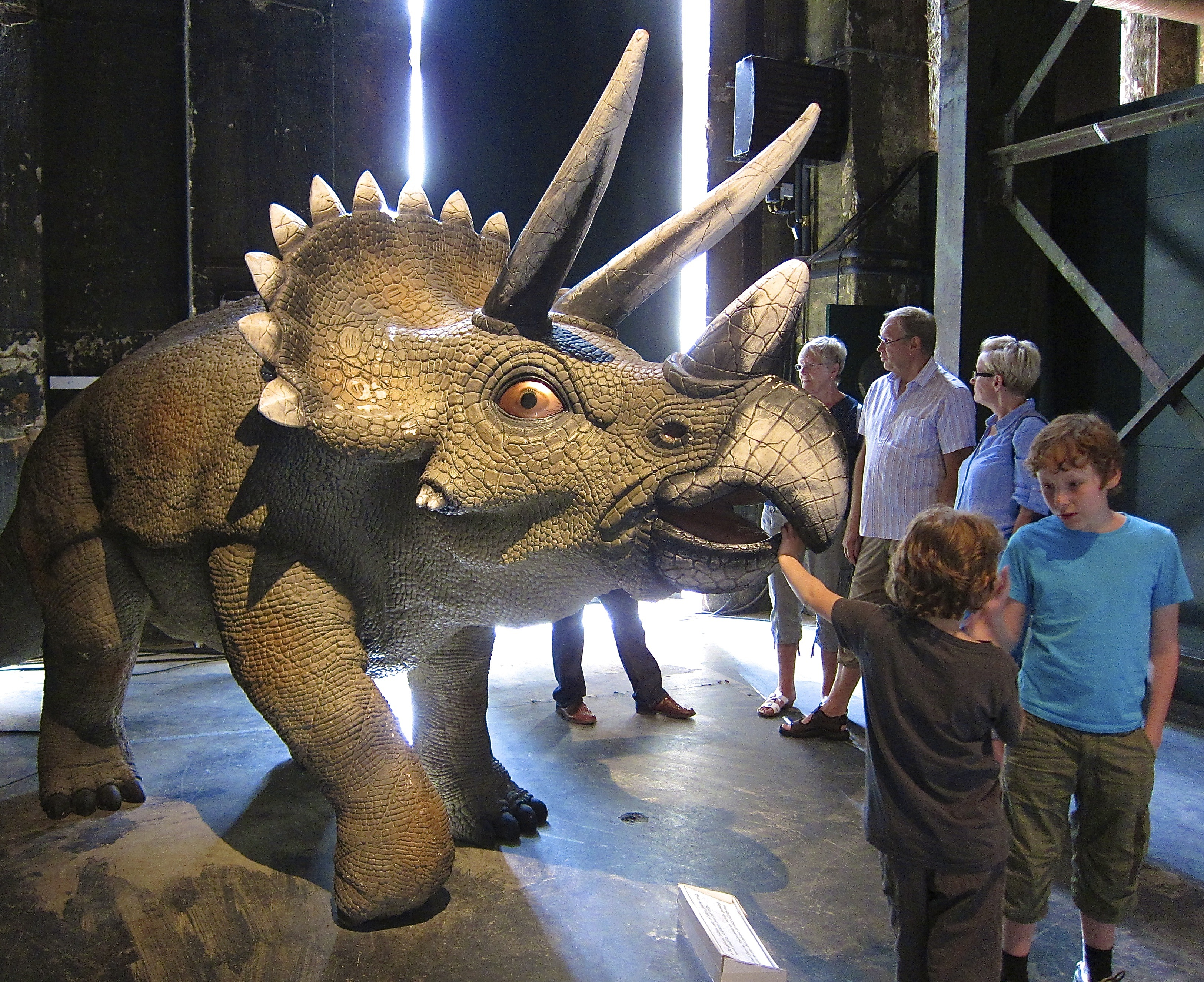 Scale model of Triceratops